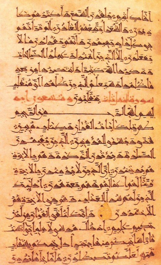 A Qur'anic manuscript written in the Eastern Kufic script (خط كوفي مشرقي). Surat Al-Anbiya' - Surat Al-Ahzab.